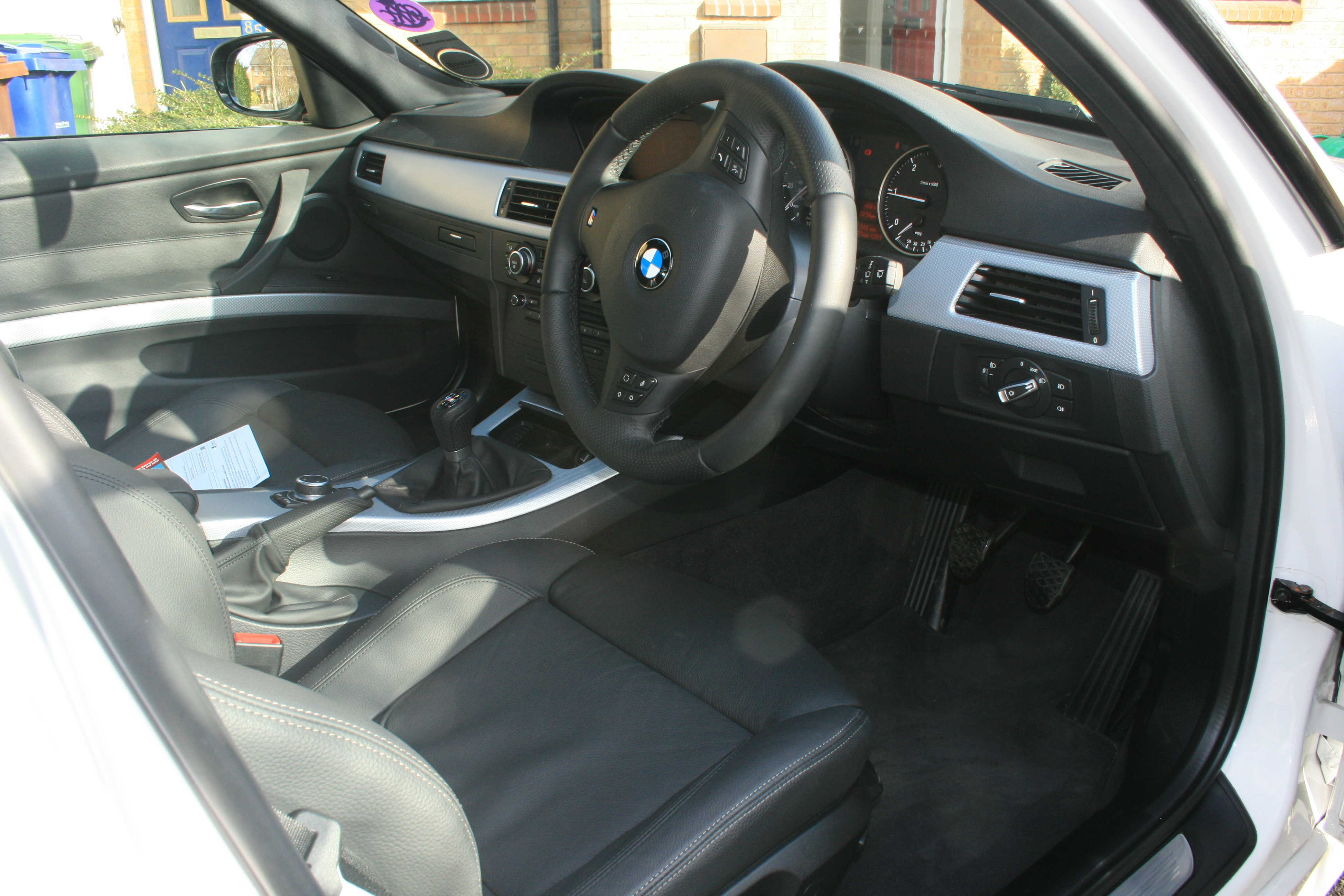 inside my new BMW, includes I-Drive, heated leather seats, sunroof etc